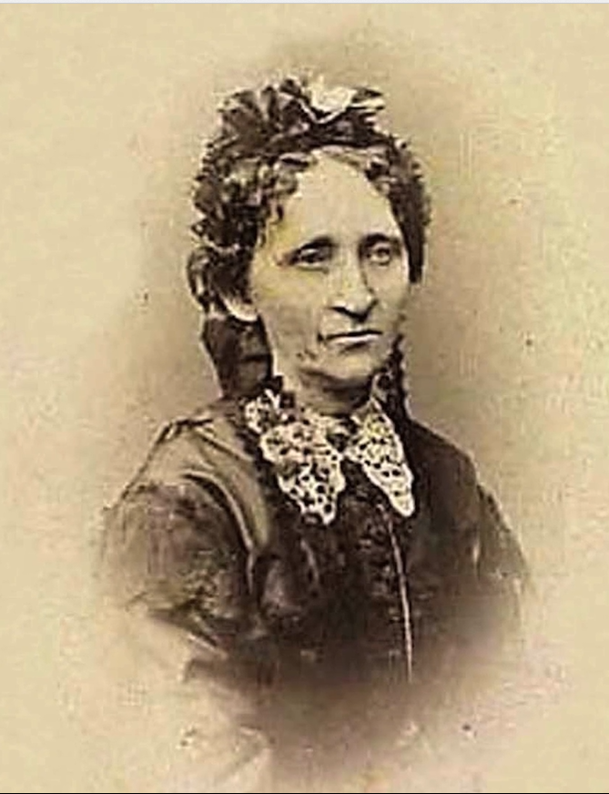 Louise Christine Ipsen née Bierring (1822 - 1905), the owner of P. Ipsens Enke after her husband Peter Ipsen's death.. Source